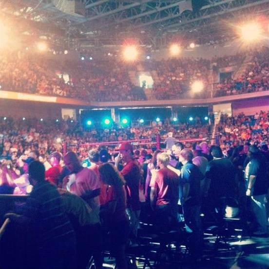 This photo depicts one of, if not, the largest U.S crowd in TNA Wrestling history for one of their biggest events of the year, Slammiversary.